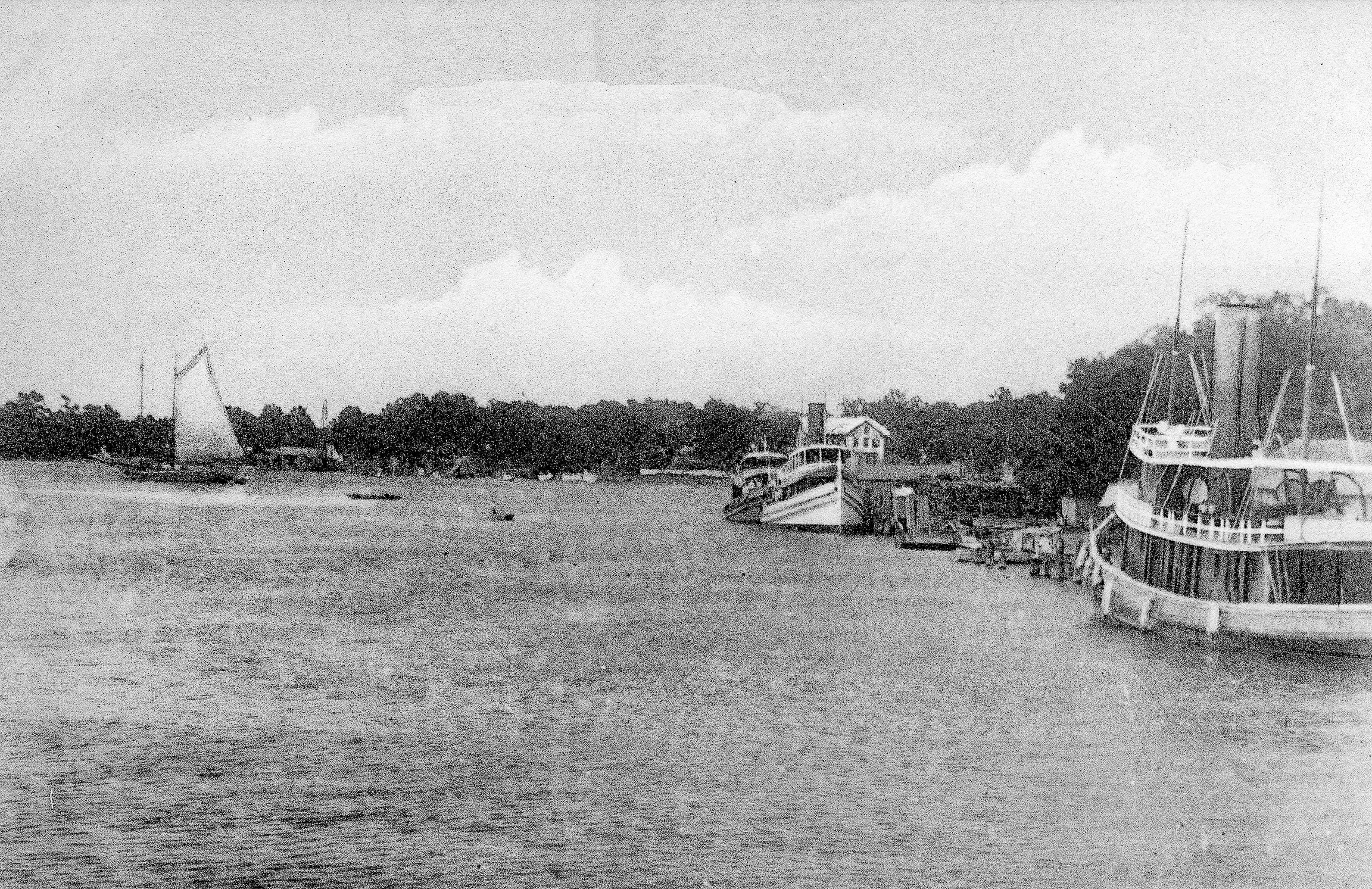 Pascagoula River, from Pascagoula, Mississippi. Collection: Cooper Postcard Collection Call number: PI/1992.0001 System ID: 90607. Link to the catalog View on Pascagoula River, Pascagoula, Miss. Please see our profile page for information on ordering. Scanned as tiff in 2008/03/28 by MDAH. Credit: Courtesy of the Mississippi Department of Archives and History